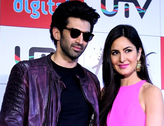 Aditya Roy Kapur & Katrina Kaif promote their film ‘Fitoor’